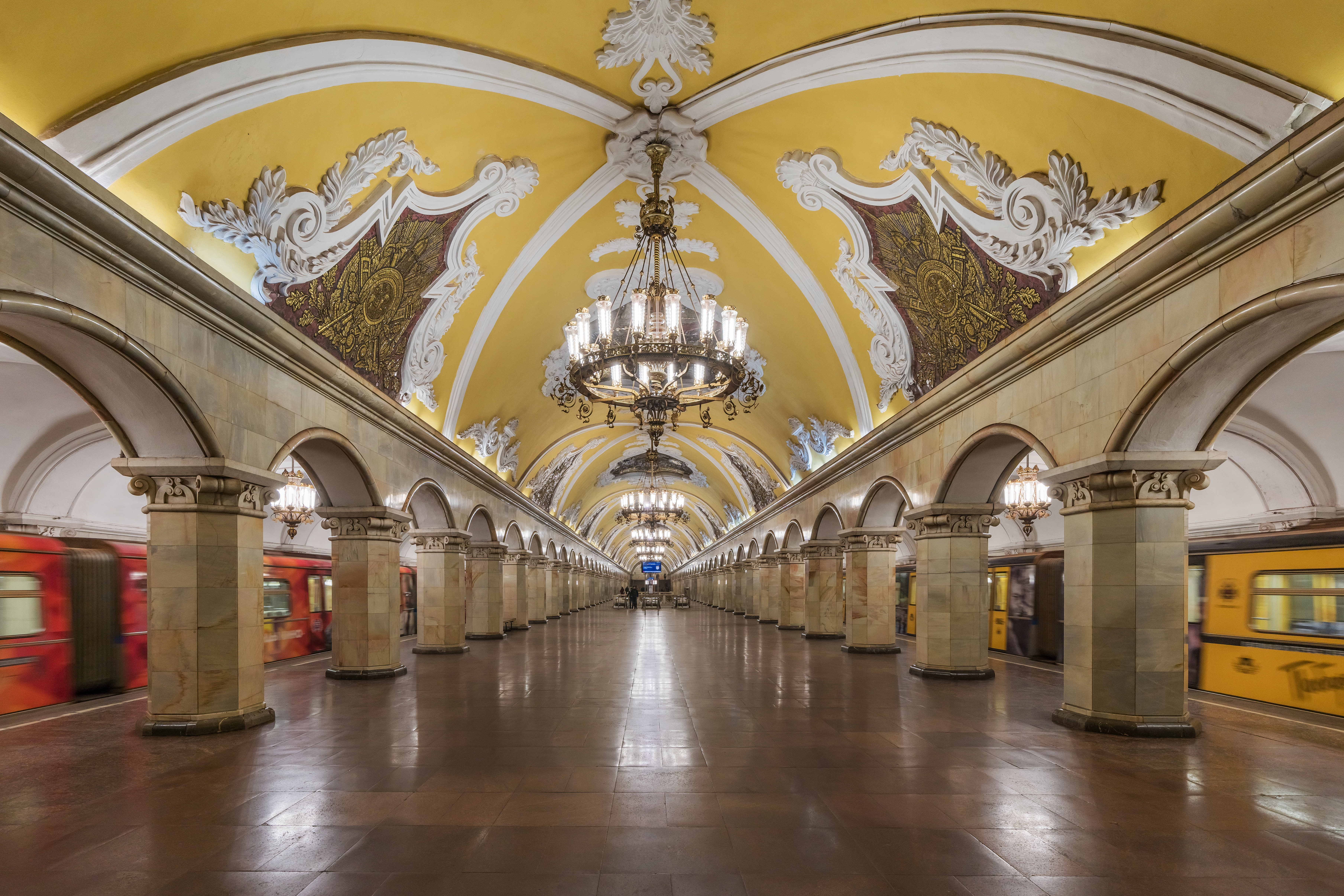 Komsomolskaya (Circle Line) metro station in Moscow